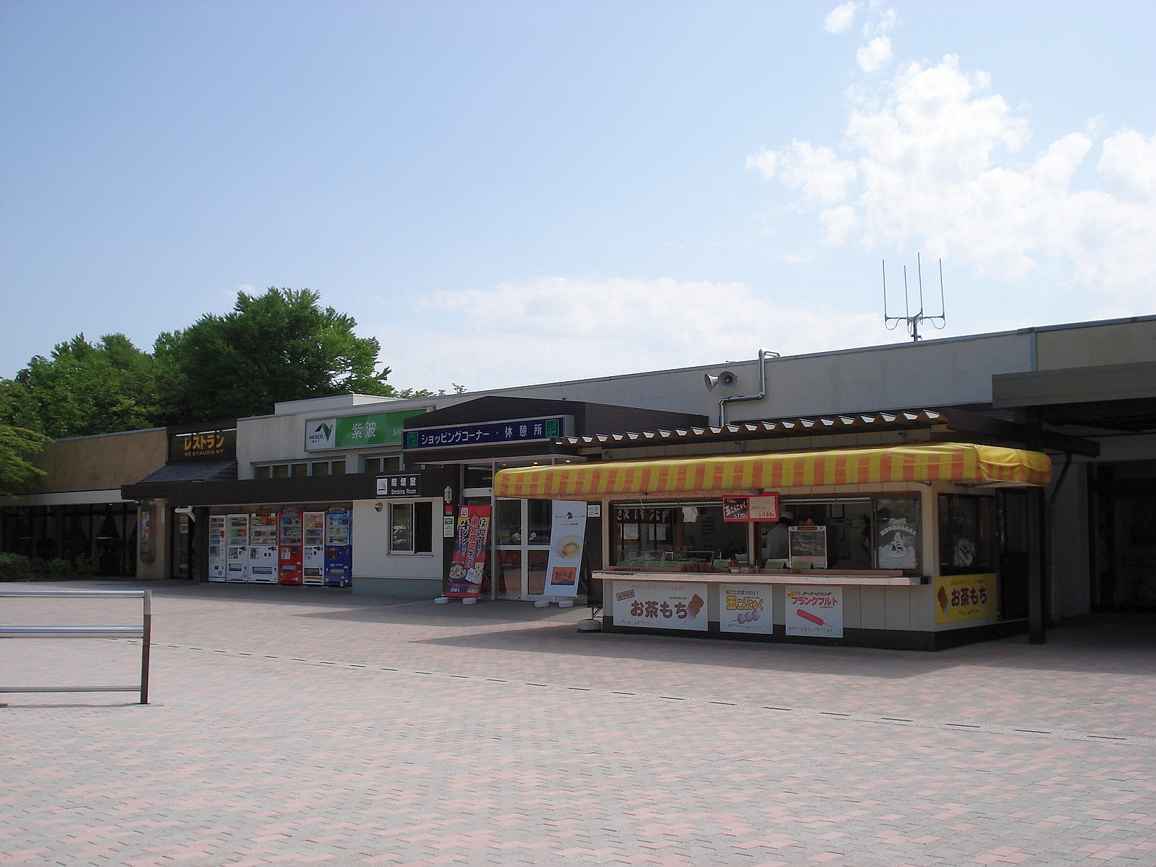 This rest area, Shiwa Service Area（for Tokyo）, is on Tohoku Expressway, in Shiwa town, Iwate Prefecture, Japan.